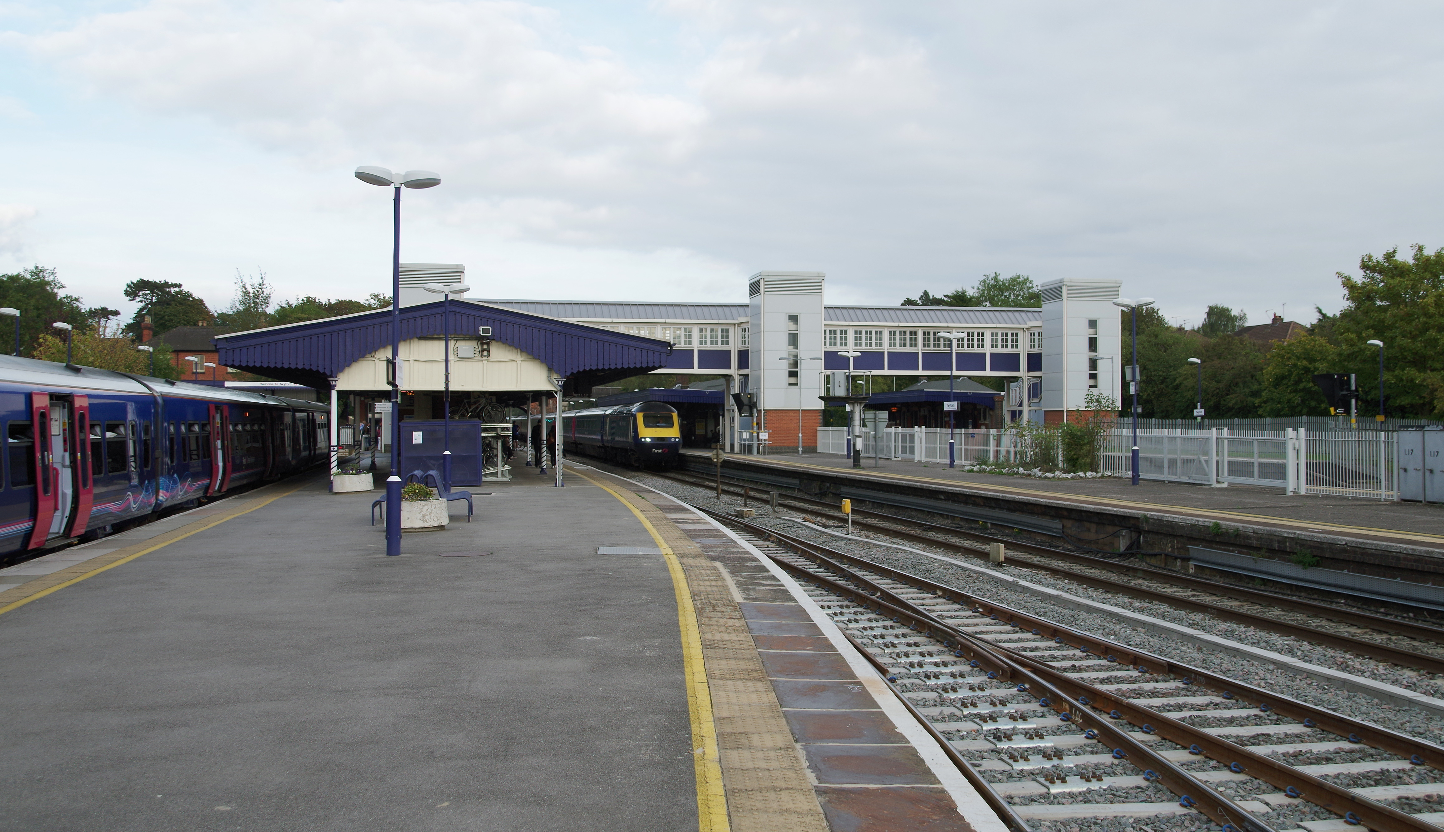 A westbound First Great Western HST set cruises through the slow platforms at Twyford railway station, while on the left class 165 "Network Turbo" DMU 165104 stands with a Henley service.